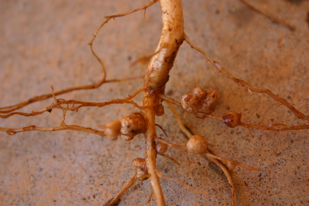 Image showing Rhizobia nodules attached to roots of Vigna unguiculata.